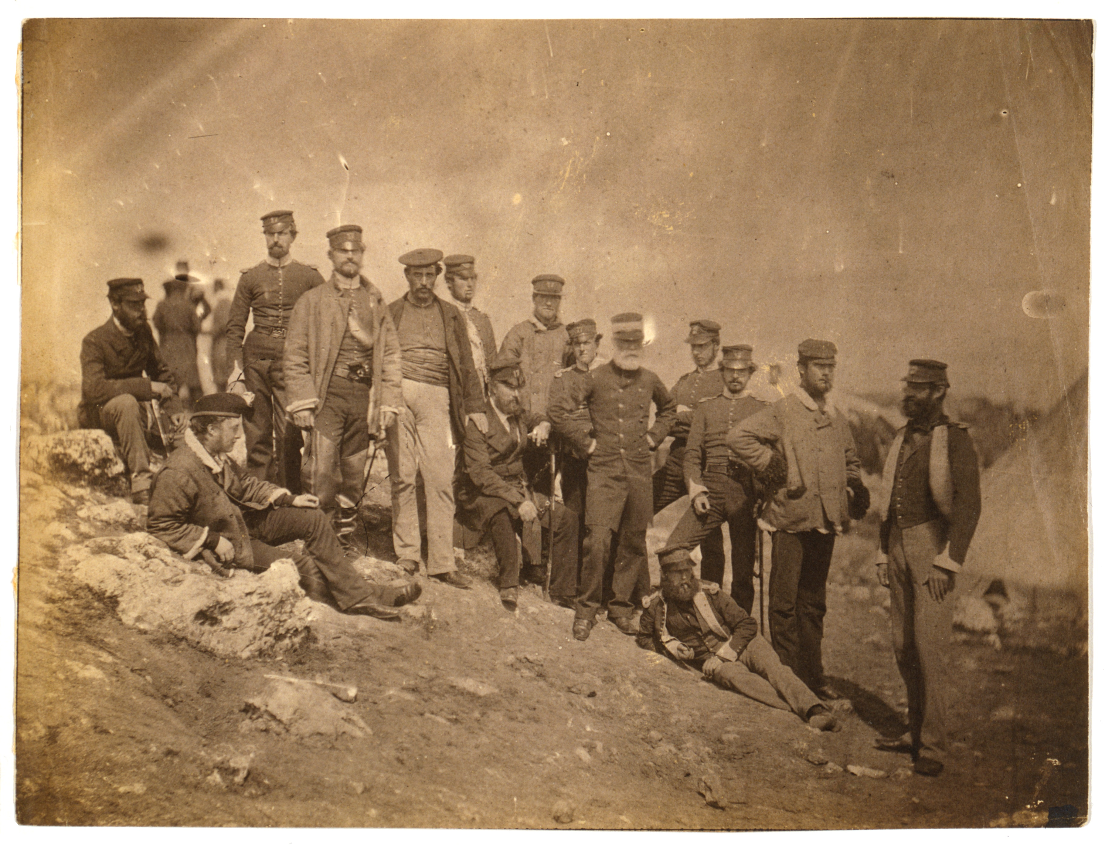 Fifteen officers of the 17th (The Leicestershire) Regiment of Foot posed on a hill at camp.